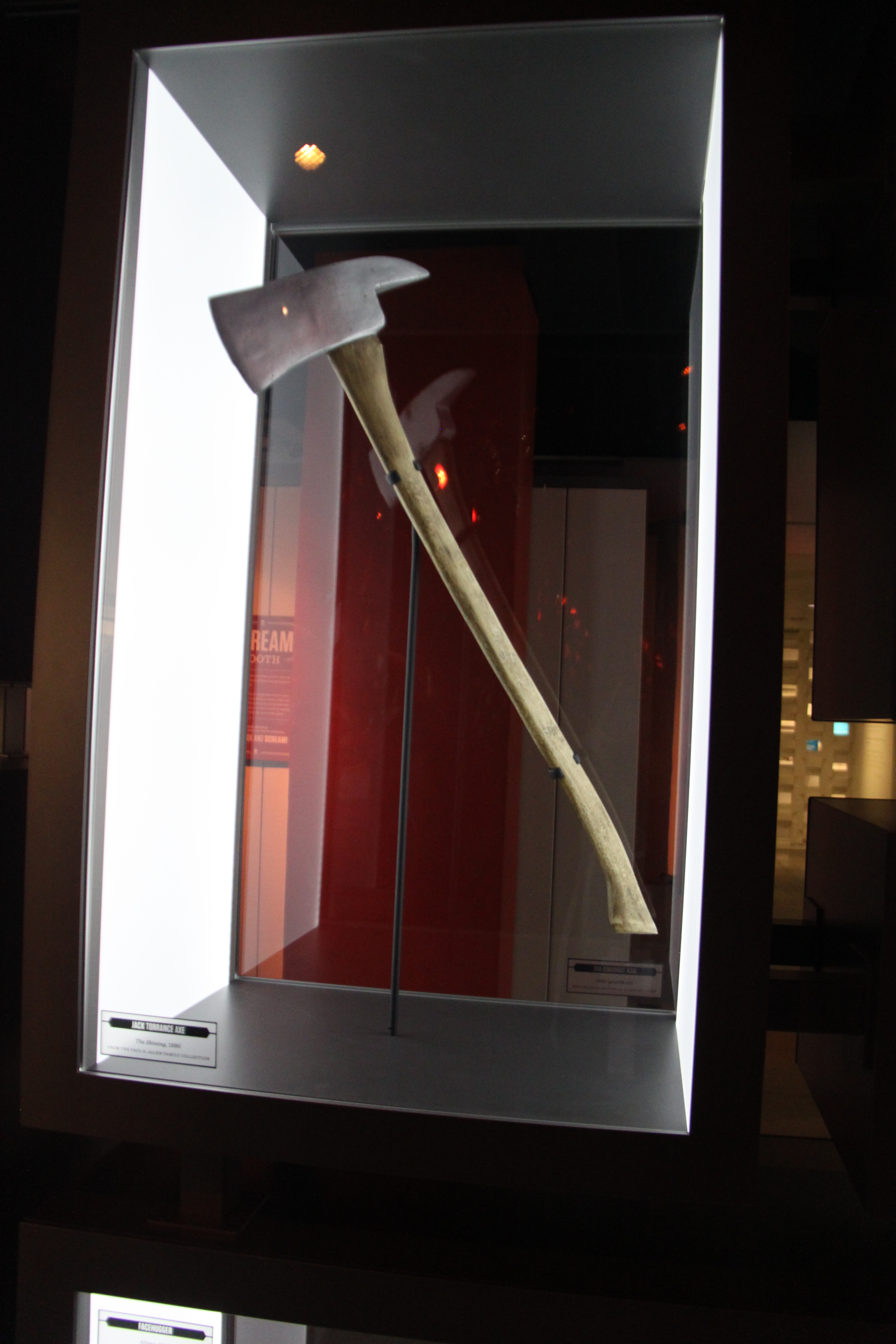 Can't Look Away: The Lure of Horror Film, Experience Music Project/Science Fiction Hall of Fame, Seattle.